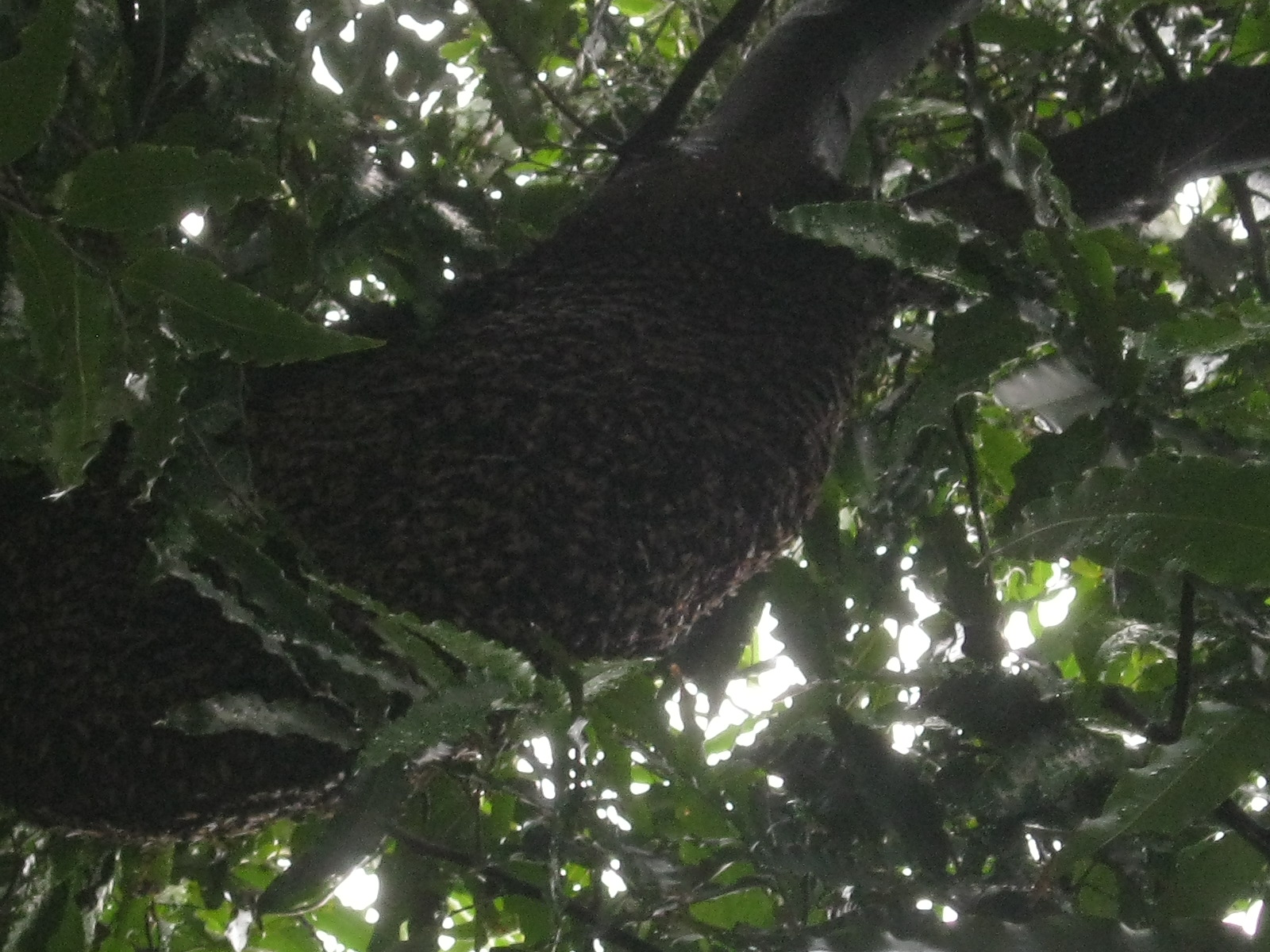 Apis dorsata, giant honeybee, its huge nest on Polyalthia tree